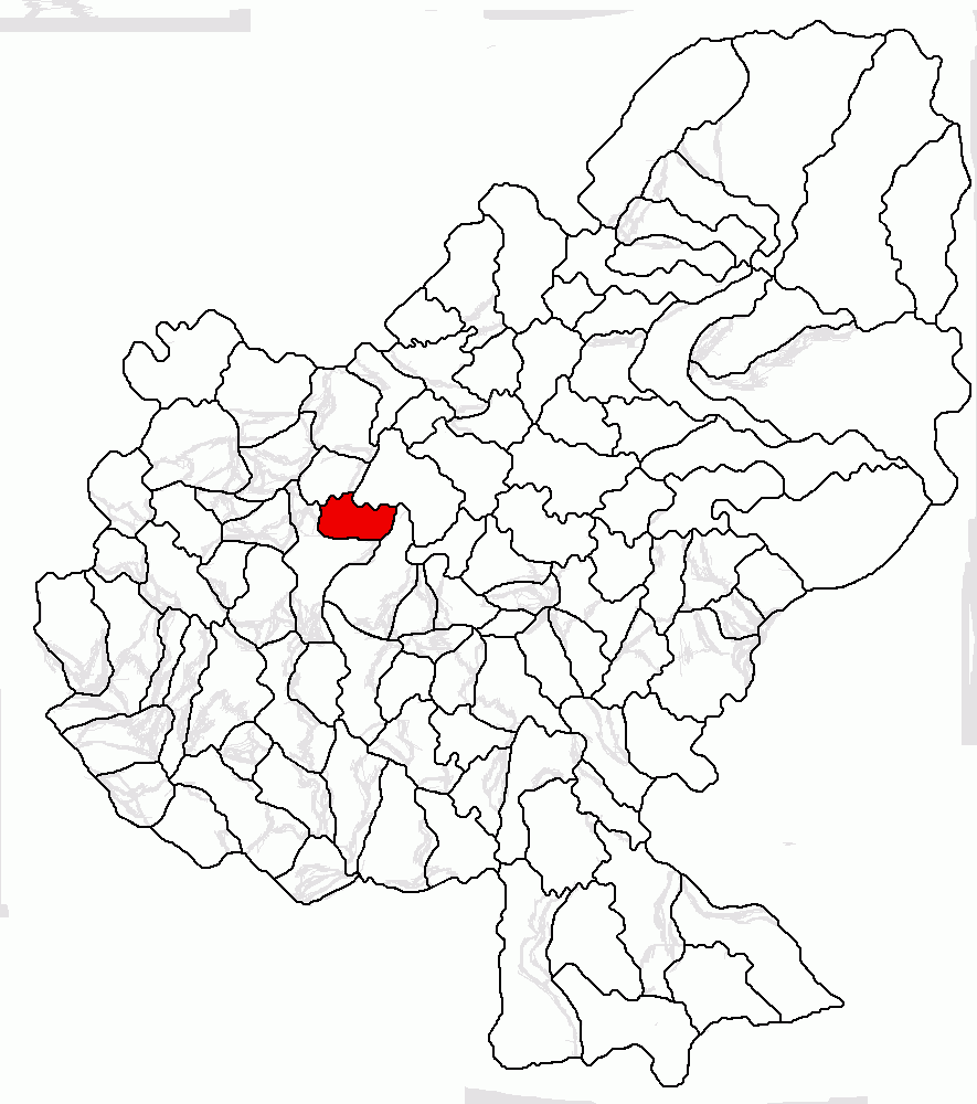 Locator map of the commune of Mădăraș, Mureș County, Romania